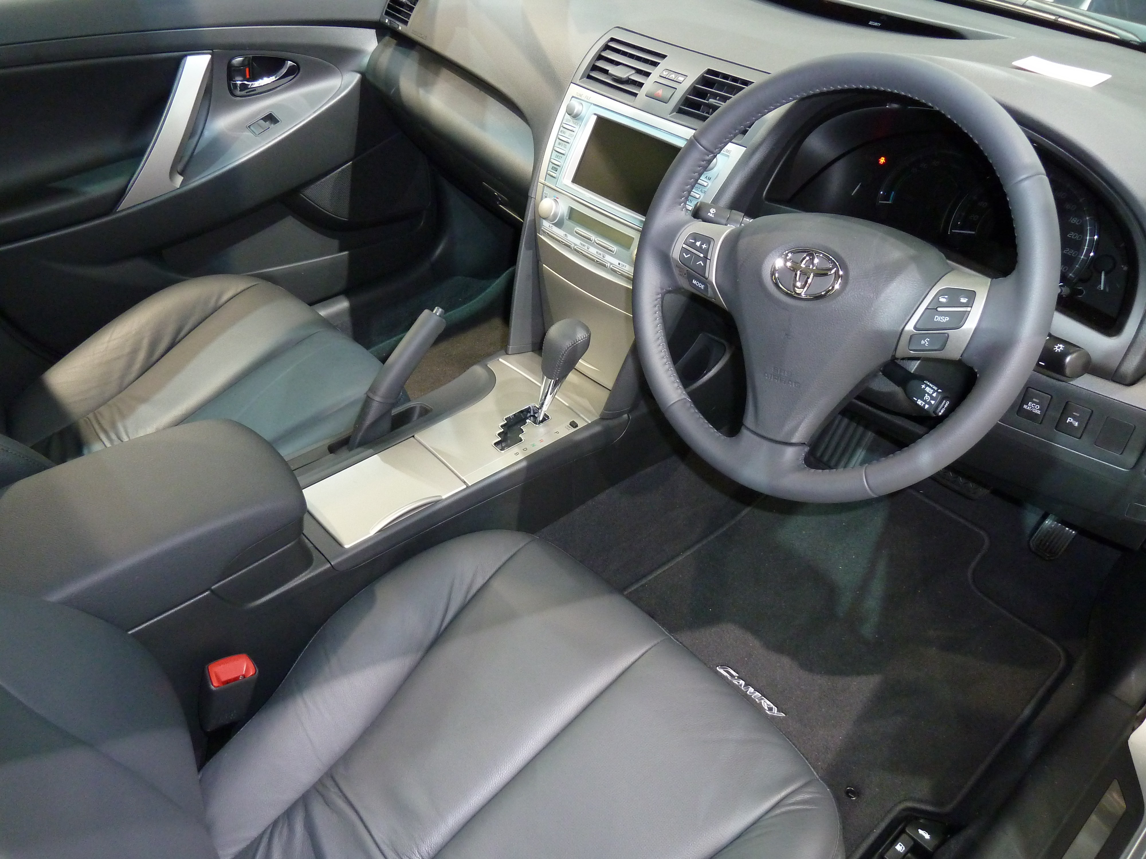 2010 Toyota Hybrid Camry (AHV40R MY10) Luxury sedan. Photographed at the 2010 Australian International Motor Show, Sydney, New South Wales, Australia.